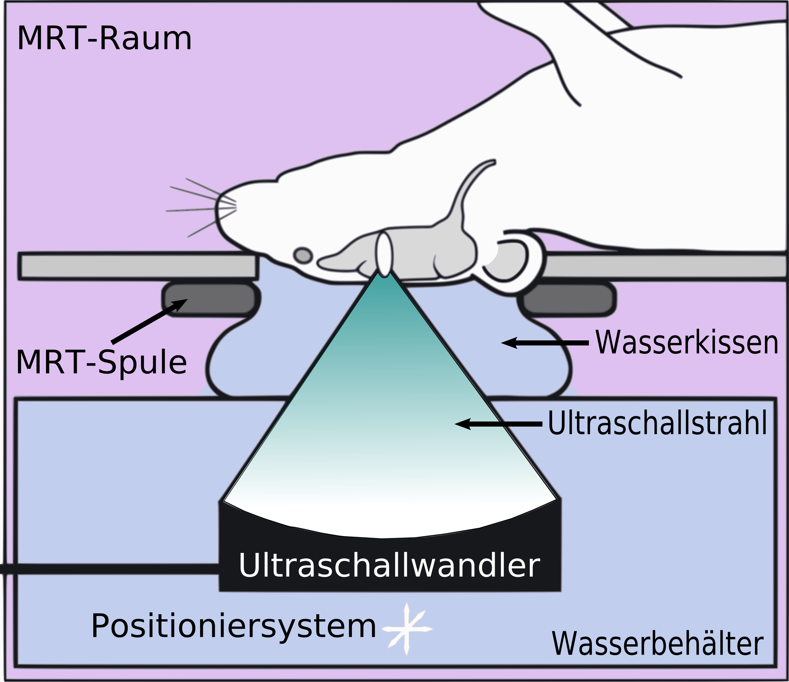 Schematic sketch showing local opening of the blood-brain barrier via sonification